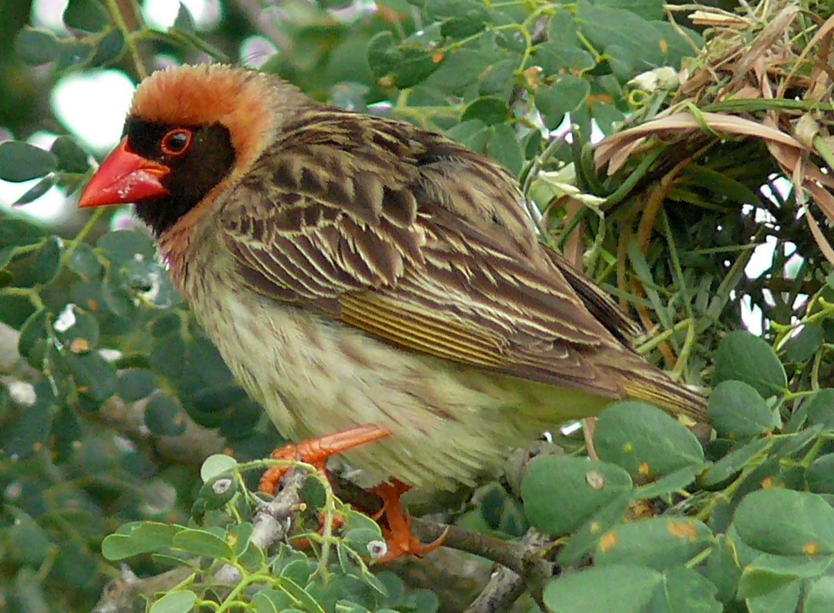 H10 South of Tshokwane, Kruger NP, SOUTH AFRICA